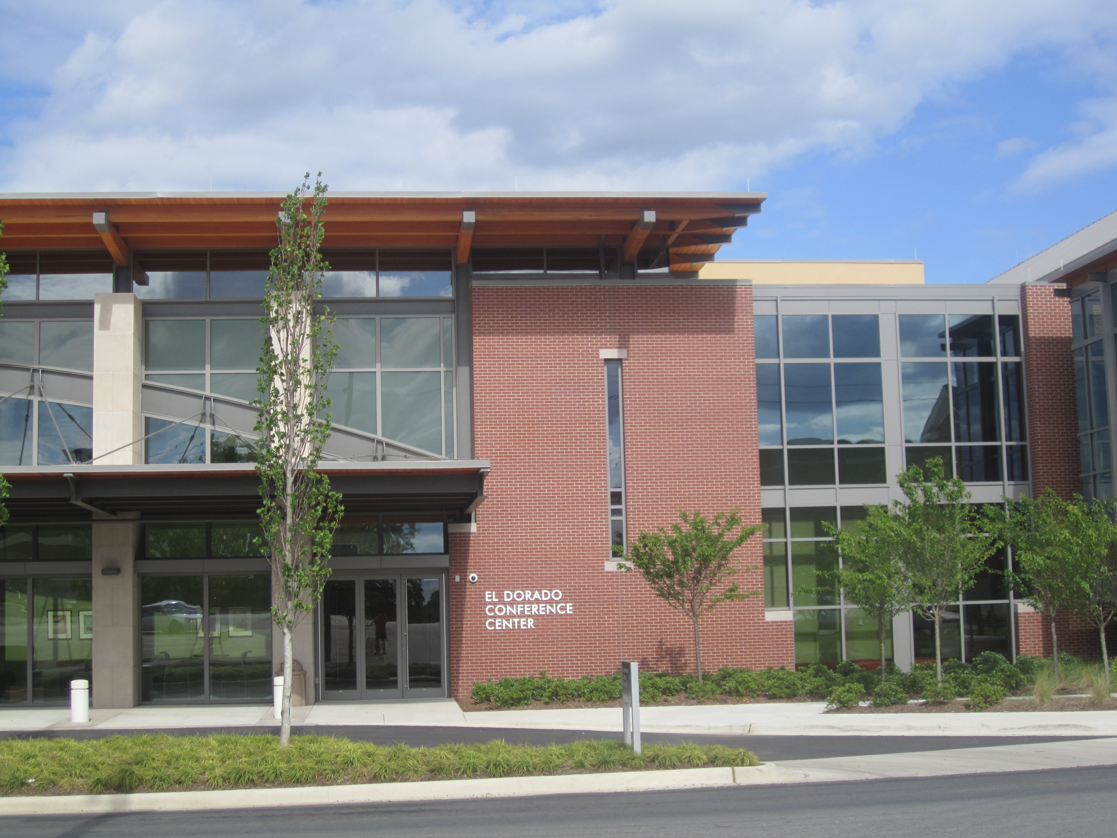 I took photo with Canon camera of El Dorado, AR, Conference Center.